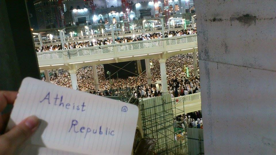 In 2014, Saudi ex-Muslim Rana Ahmad was having trouble in her family, and sought and found the help of Atheist Republic and other similar organisations online. When her family forced her to come along with the hajj, she took this picture of herself holding a piece of paper with "Atheist Republic" inside the Great Mosque of Mecca, the holiest site of Islam. She subsequently fled to Germany, aided by Faith to Faithless.